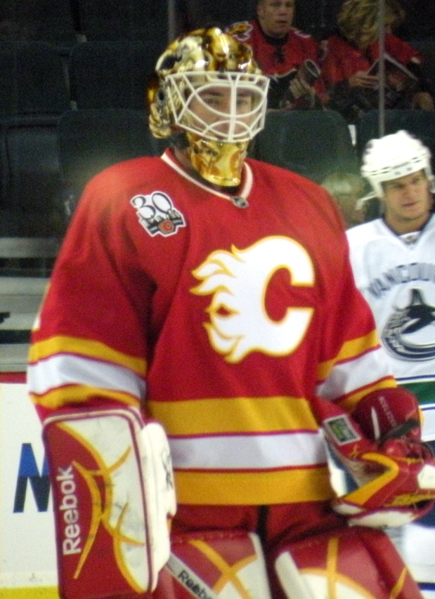 Calgary Flames goaltender Curtis McElhinney during warm-up prior to a National Hockey League game against the Vancouver Canucks, in Calgary.